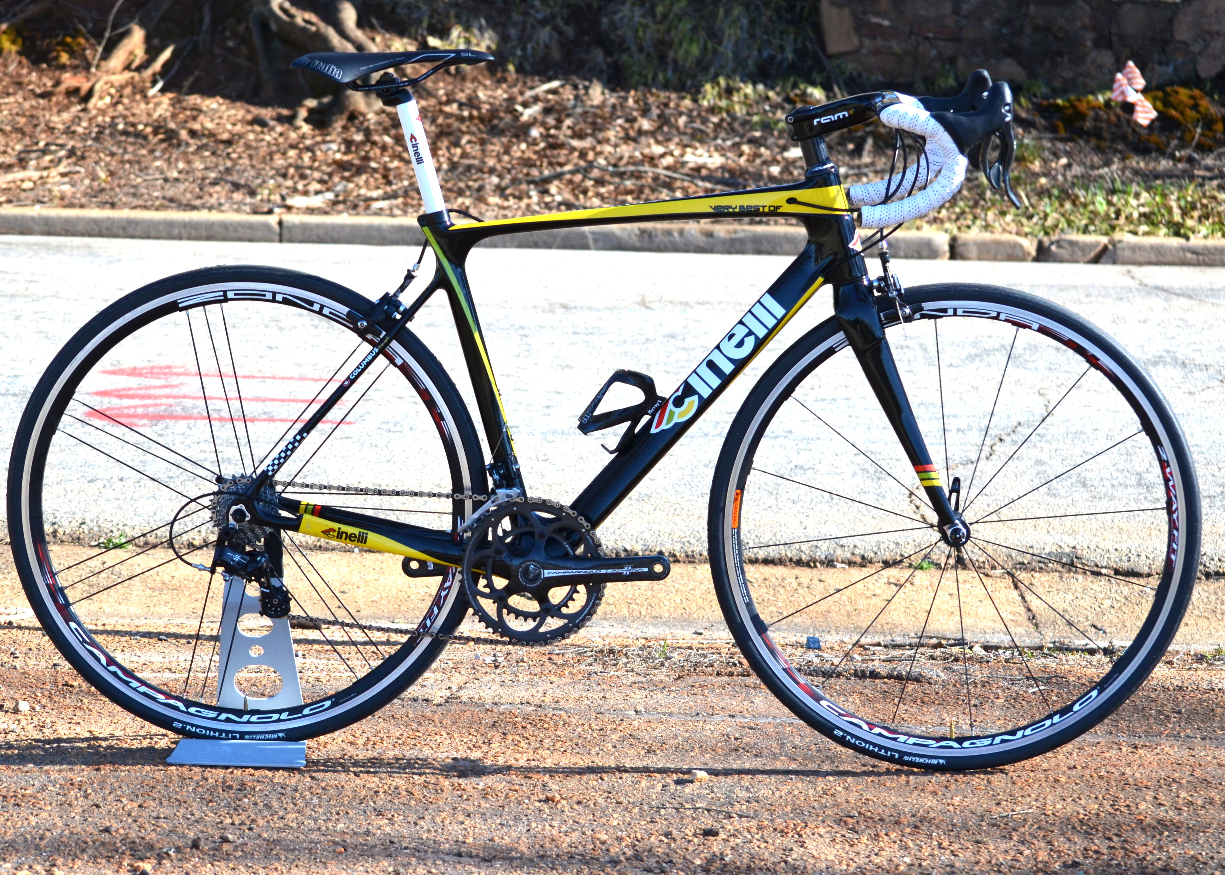 Long Lost Cinelli Photos - Very Best Of, MASH and more